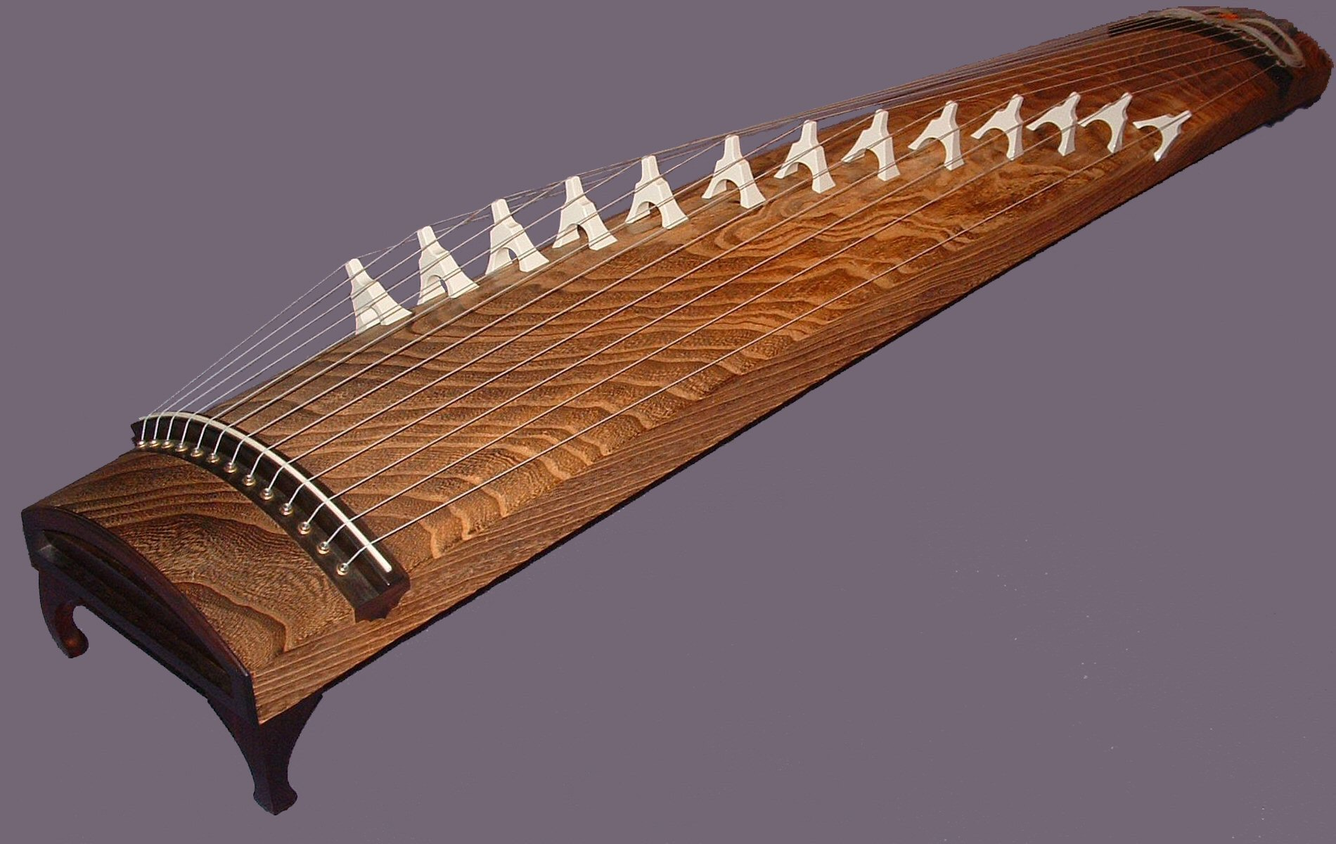 A picture of the Japanese 13-stringed koto.